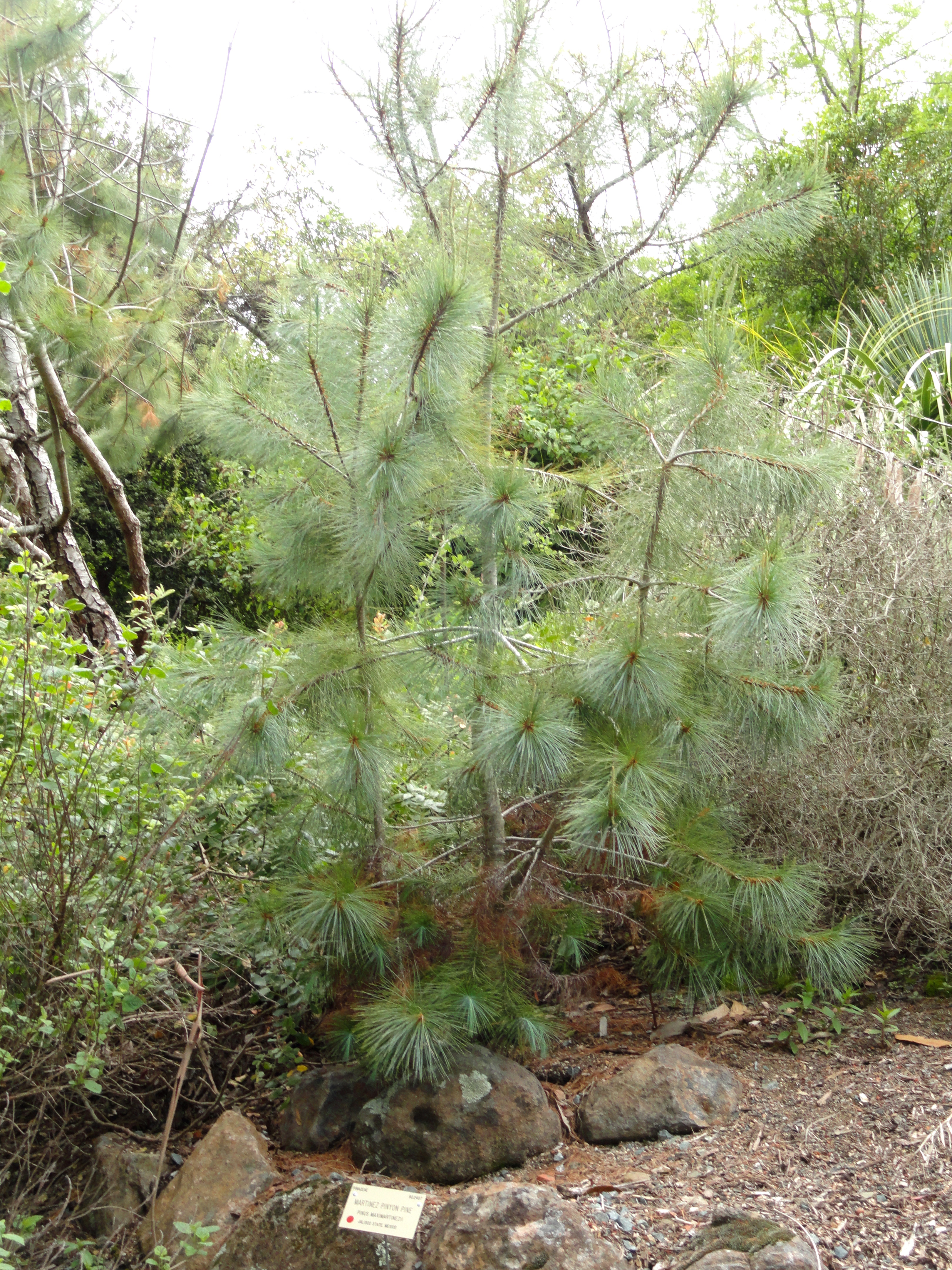 Pinus maximartinezii specimen in the University of California Botanical Garden, Berkeley, California, USA.